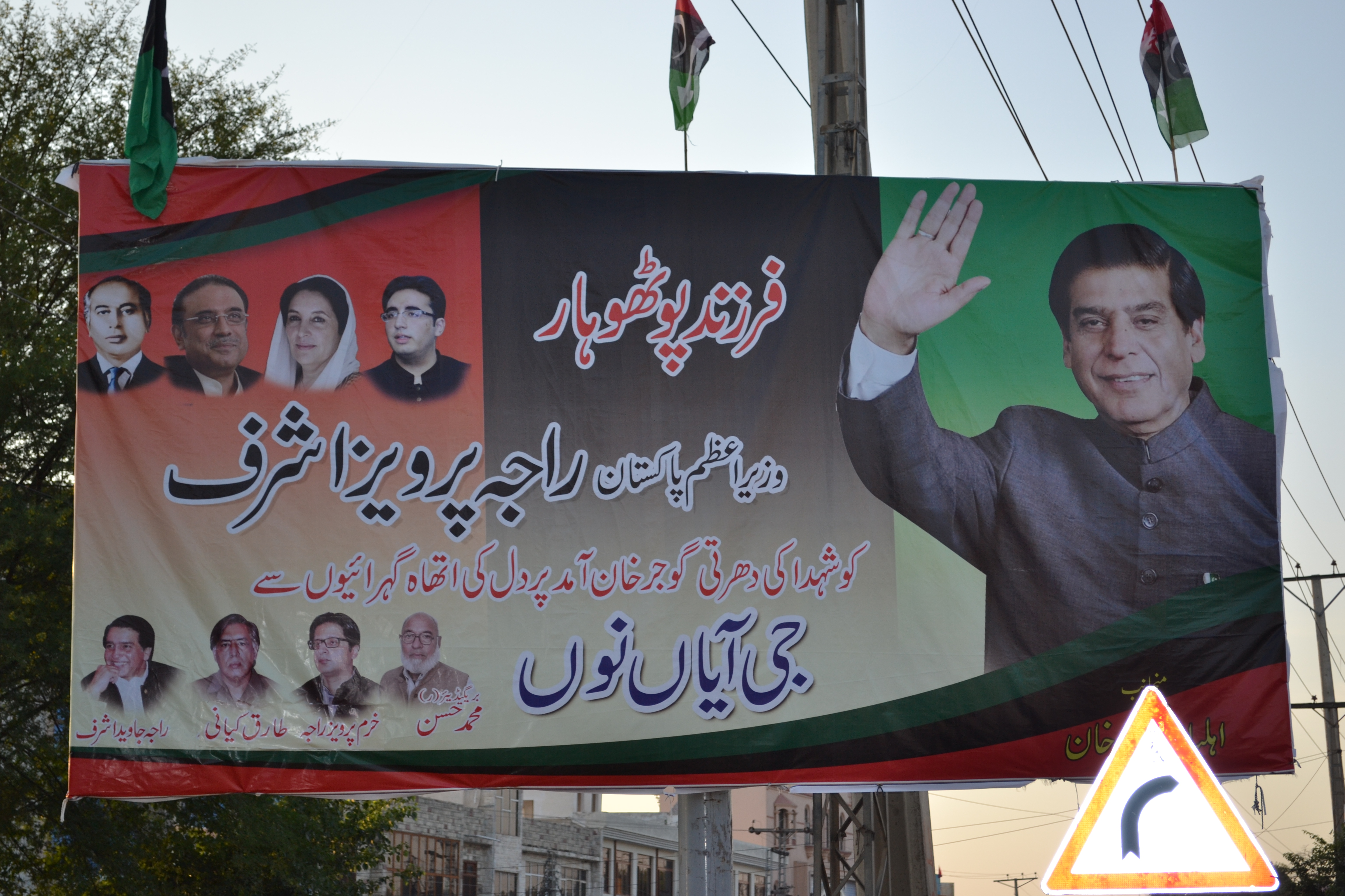 PPP-Hoarding in Gujar Khan, Punjab, Pakistan.